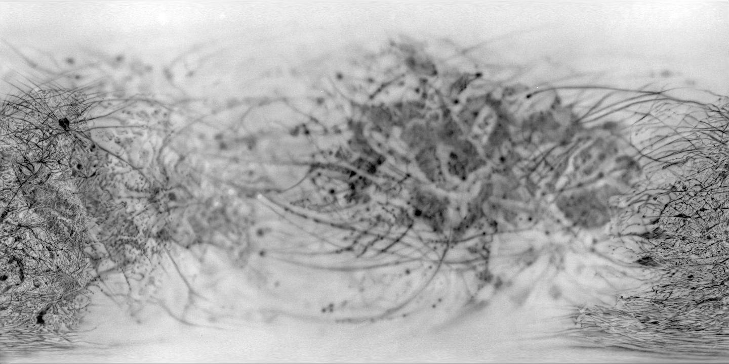 Cleaned up version of the Voyager mosaic. Resolution 4 pixels per degree